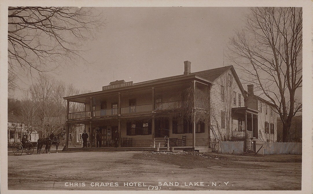 Postcard picture of "Chris Crapes Hotel" in Sand Lake, New York, about 1910